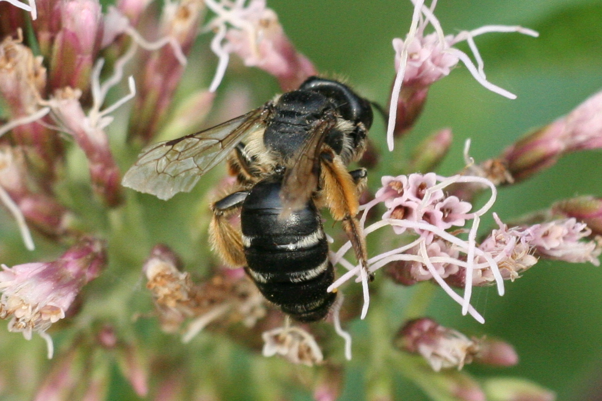 A female Andrena flavipes bee, photographed in Lehrensteinsfeld